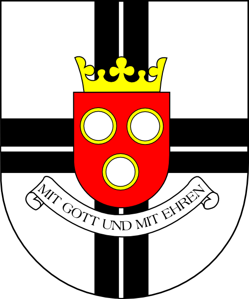 Coat of arms (shield only) of Ferdinand August von Spiegel, archbishop of Cologne (1824 - 1835). Based on his seal